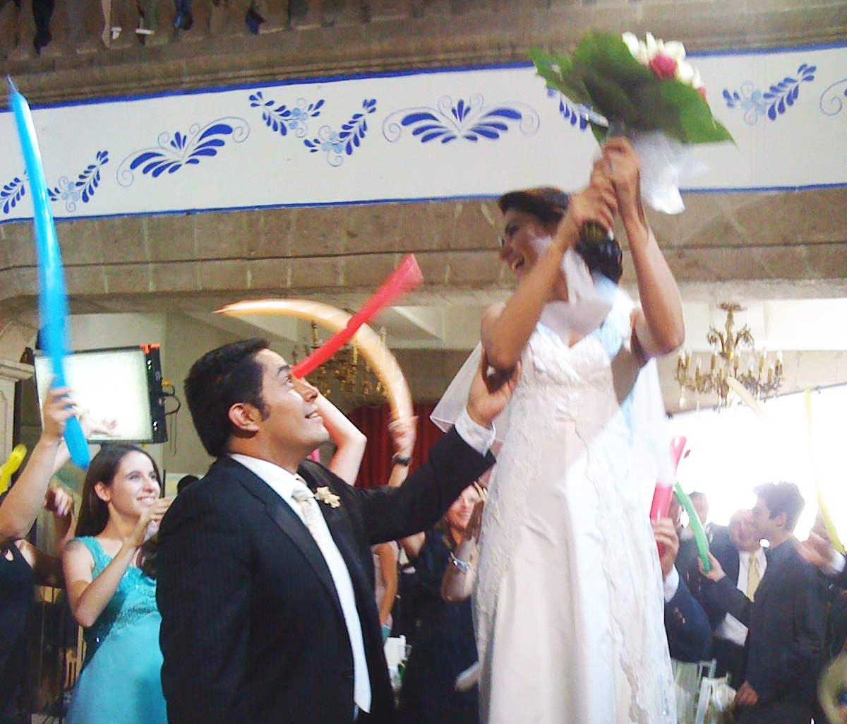 Carlos Barragán en Cásate conmigo, mi amor